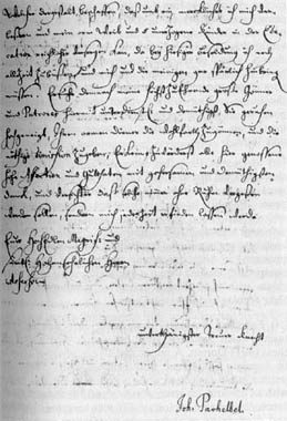 Pachelbel's autograph (hence the PD indication) letter. Found on Karadar: [1].